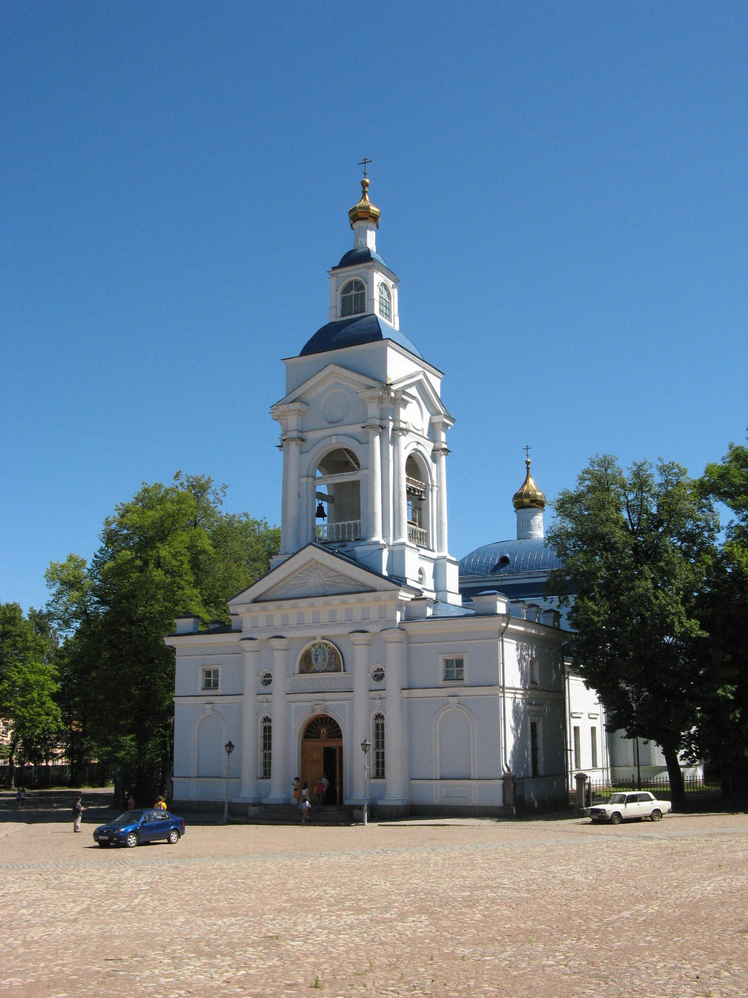 Transfiguration Cathedral (Orthodox) — in Vyborg (Viipuri), Leningrad Oblast - northwestern Russia. Neoclassical style church built in the 19th-century — in Viipuri of the former Finnish Karelia region.